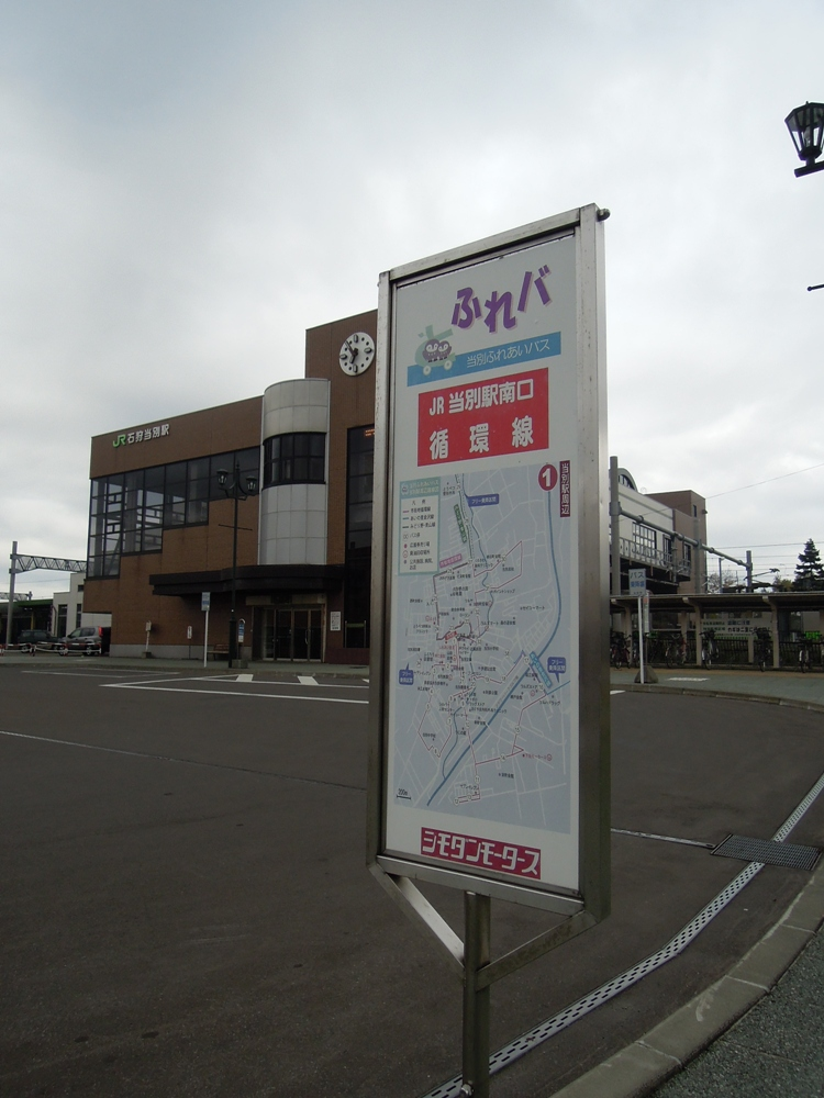 Tobetsu town community bus (Tobetsu Fureai Bus) "Ishikari-Tōbetsu Station" bus stop